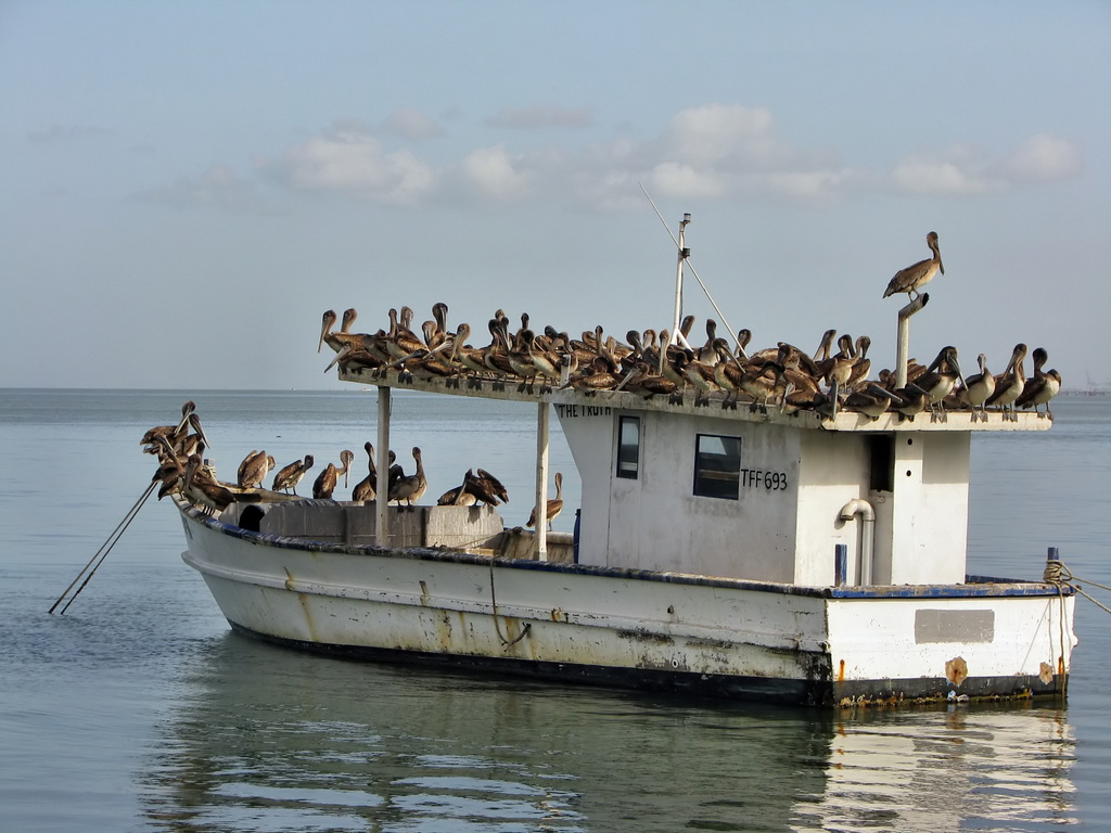 Brown Pelicans roosting on a boat in Trinidad.